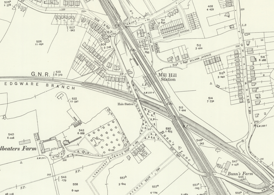 Map showing Midland Railway's Mill Hill station (now Mill Hill Broadway) and Great Northern Railway's The Hale station (later Mill Hill (The Hale)).